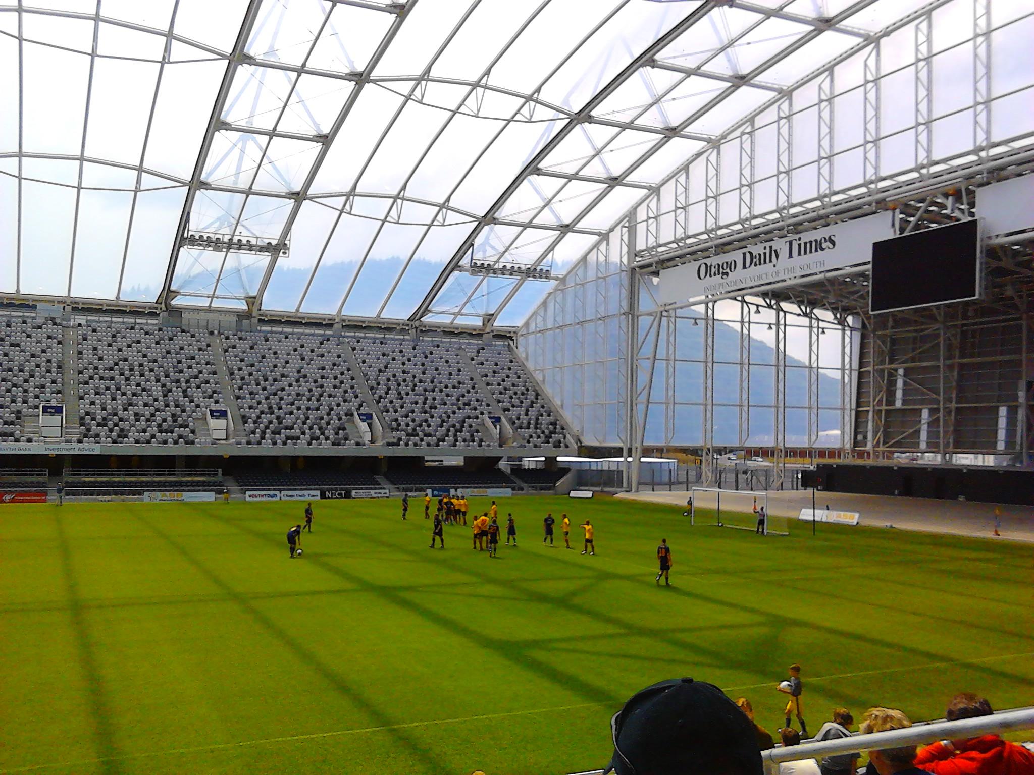 Football match between Otago United and Waikato FC in Round 7 of the 2011–12 ASB Premiership. The match was played on 15 January 2012 in Forsyth Barr Stadium, Dunedin, New Zealand. Waikato FC won the match 2–0.